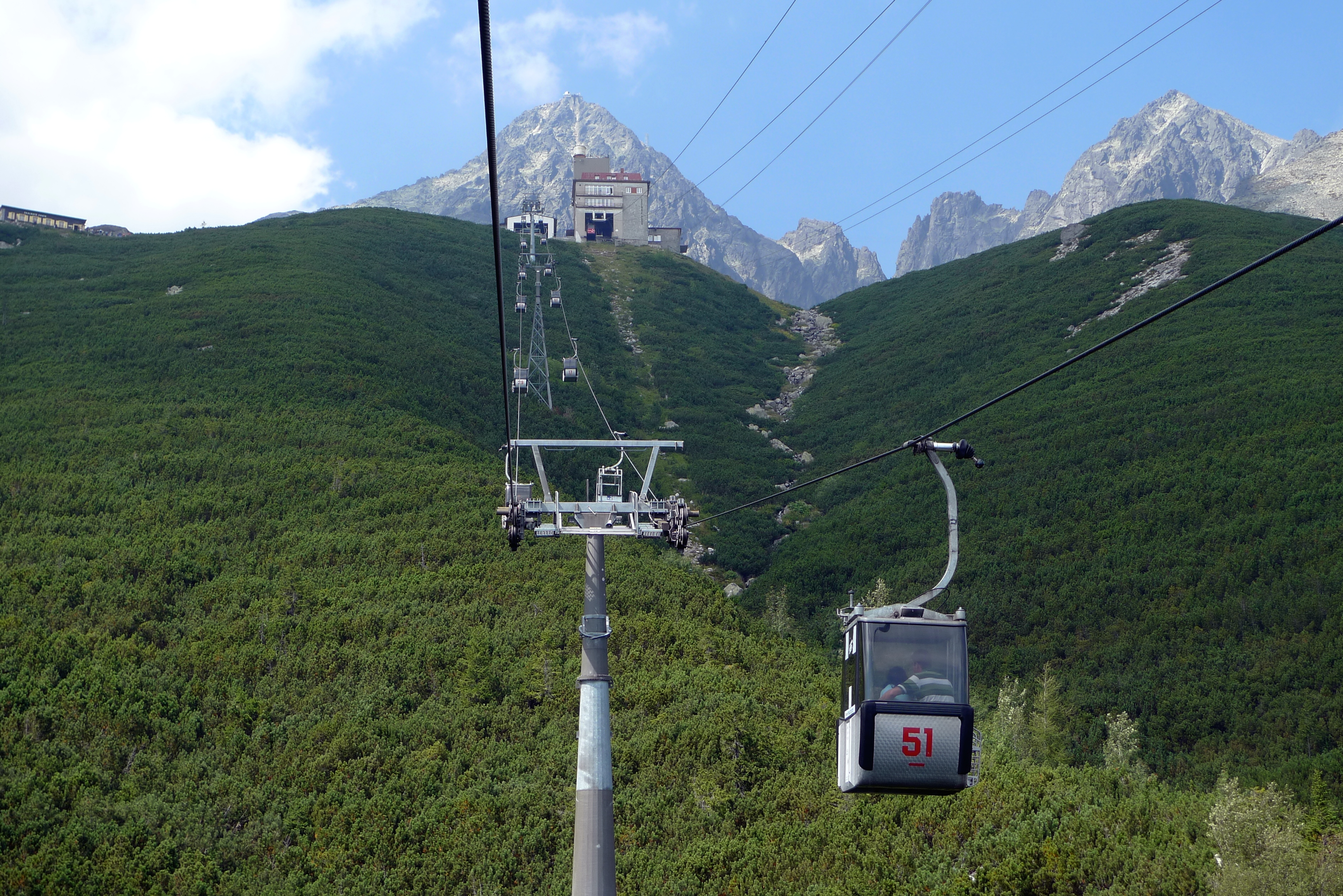 Gondola lift Tatranská Lomnica–Skalnaté pleso. Česky: Oběžná kabinková lanovka v úseku Tatranská Lomnica–Skalnaté pleso.